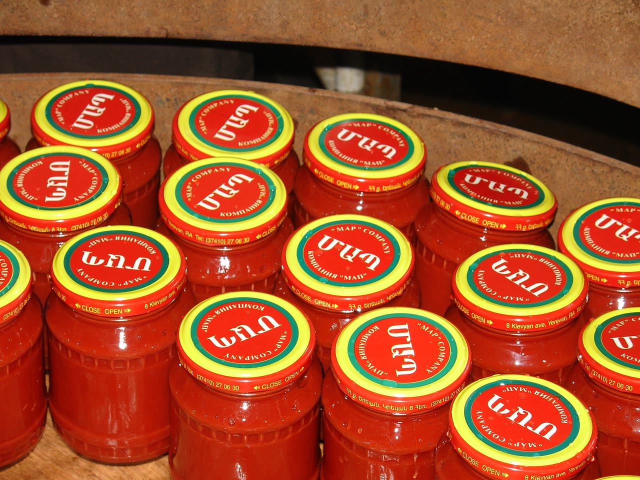 Artashat cannery products.